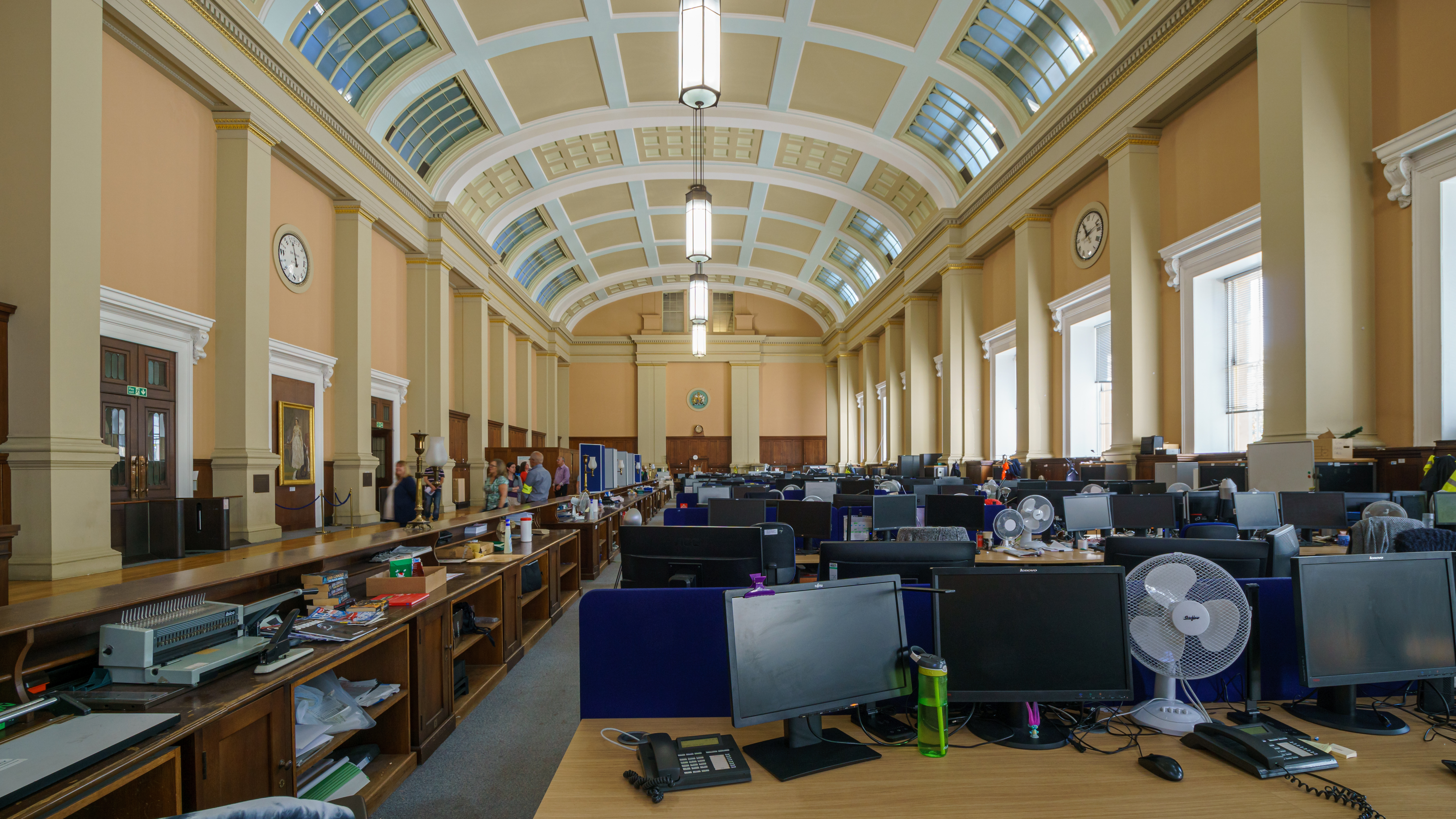 Custom House, City of London Wikidata has entry Q5196382 with data related to this item.